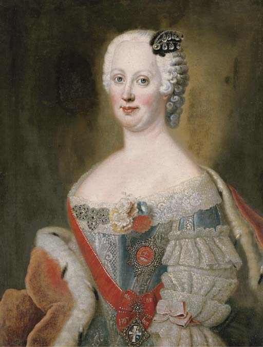 Portrait of noblewoman, traditionally identified as Catherine the Great (l762-1796), Empress of Russia, bust-length, in a blue silk dress with lace trim and an ermine-lined cloak oil on canvas 32 x 24½ in. (81.3 x 61.6 cm.) PROPERTY FROM THE ESTATE OF BARONESS AIDA NORA VON DEM BUSSCHE-STREITHORST We are grateful to Sir John Guinness for pointing out that the sitter is in fact Johanna Elizabeth, Princess of Holstein-Gottorp (1712-1760), wife of Prince Christian August, Prince of Anhalt-Zerbst (1690-1727) and mother of the Tsarina Catherine the Great, wearing the Order of Saint Catherine. The type can be dated between 1743 when the sitter was summoned with her daughter to Russia and 1747 when she was widowed (for a related picture, see E. Berckenhagen in ed. G. Poengsen, Antoine Pesne, Berlin, 1958, no. 161).